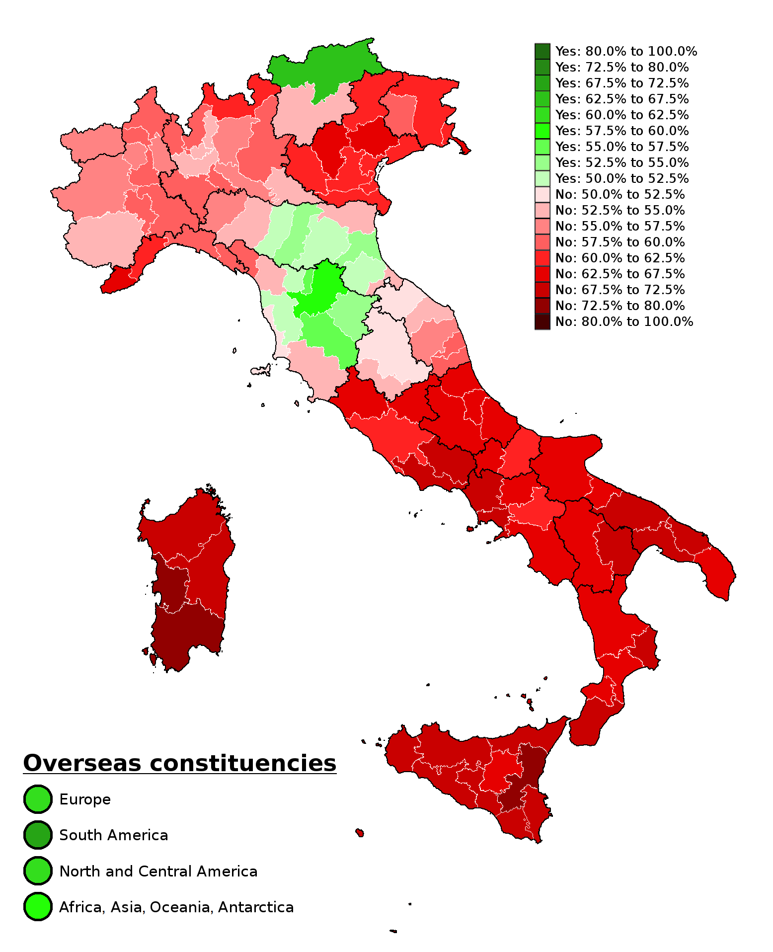 Vote share by province